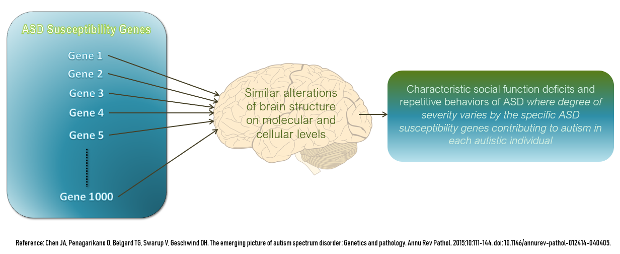 Autism genes have similar downstream effects on brain development; This work 'Autism genes have similar downstream effects on brain development' uses a photo of Diagram of human brain by Hugh Guiney, used under CC BY. "Autism genes have similar downstream effects on brain development" is licensed under CC BY by Anwer2007 (talk) 09:11, 29 April 2020 (UTC)